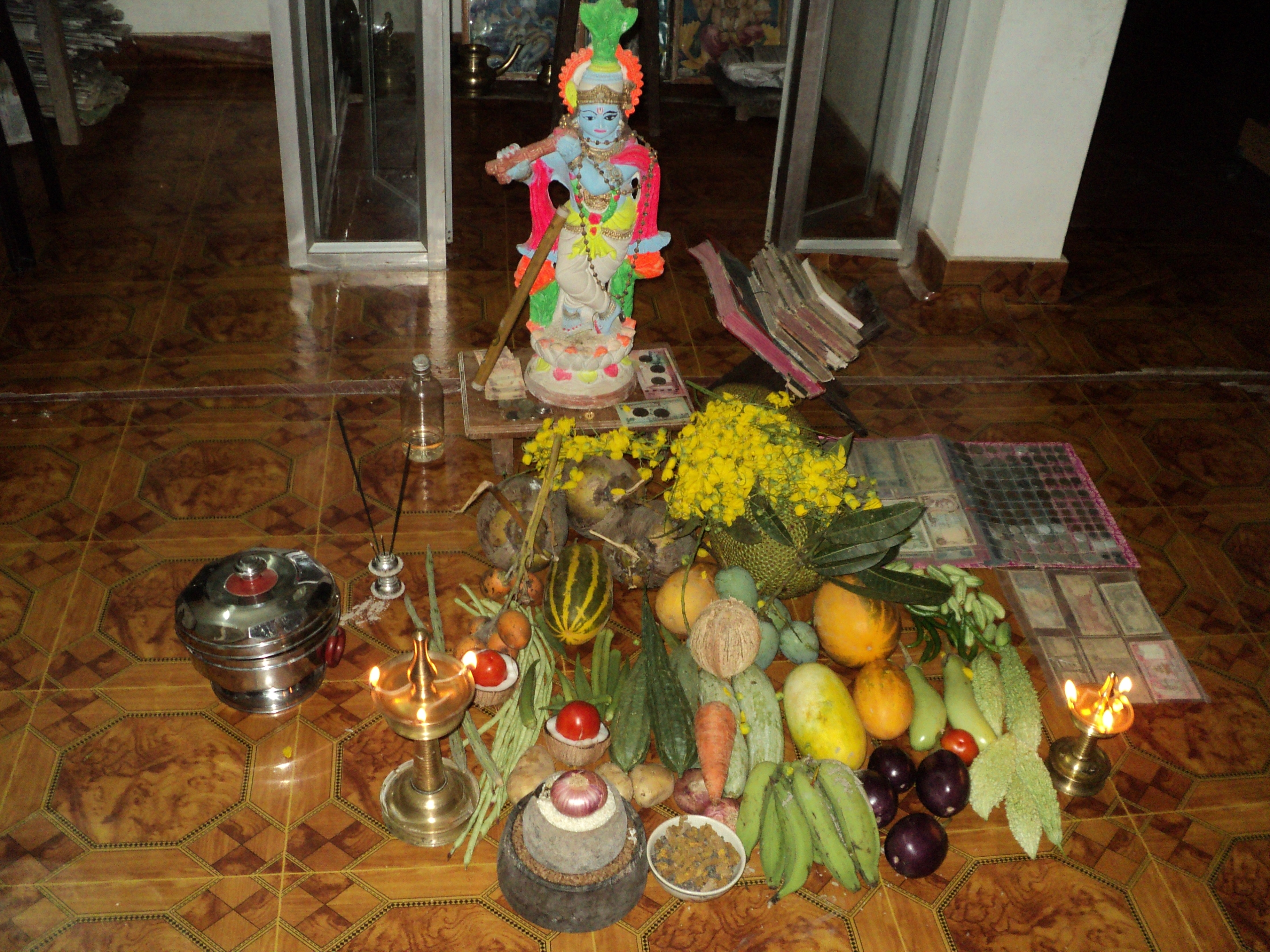 As a part of Malayalam Loves Wikimedia event ഒരു കണിയൊരുക്കം